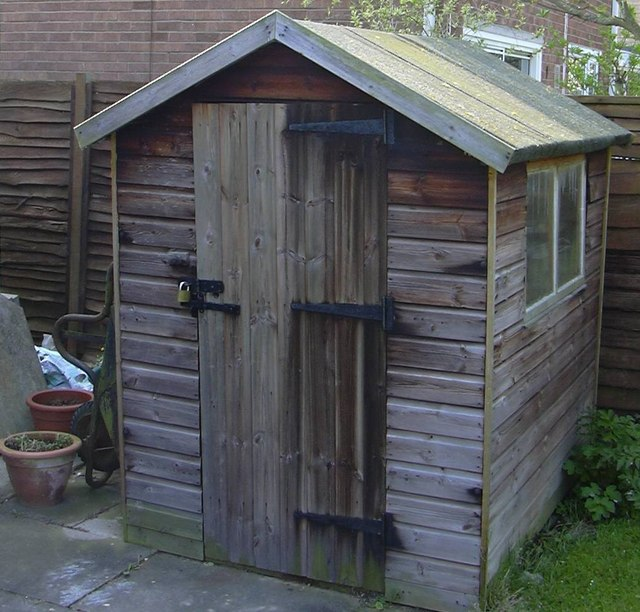 Garden shed. There is a 1970s estate to the northeast of Bourne, Lincolnshire, England with conventional detached houses. The estate is "open plan" in that the front gardens are unfenced, but the back gardens are individually enclosed.